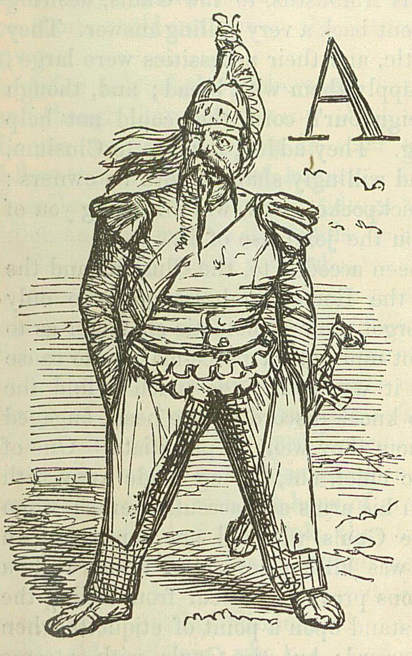 Image by John Leech, from: The Comic History of Rome by Gilbert Abbott A Beckett. Bradbury, Evans & Co, London, 1850s Initial A. – A Gaul